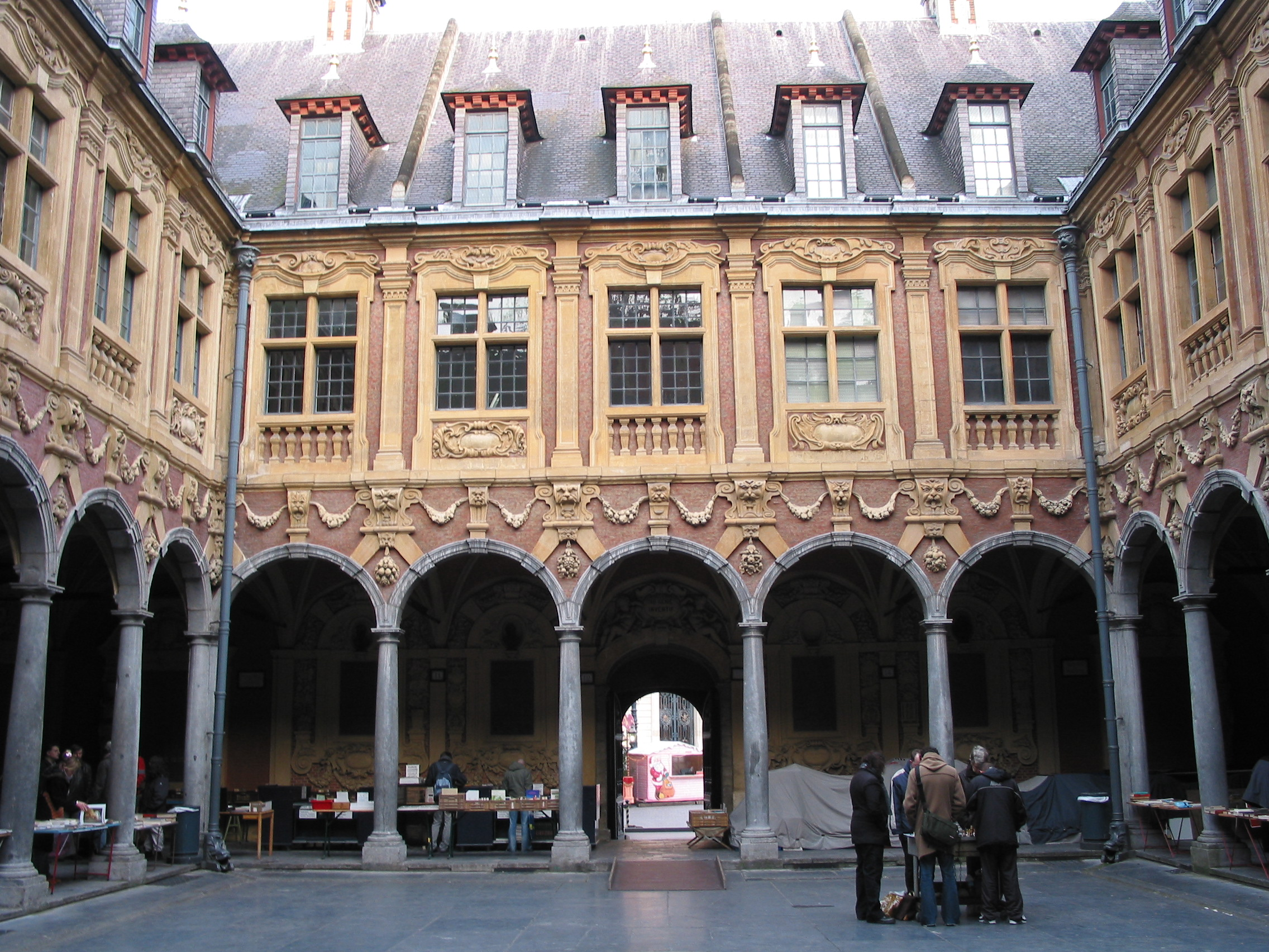 Lille (France), courtyard of the Vieille Bourse (Old stock exchange - 1652-1653).